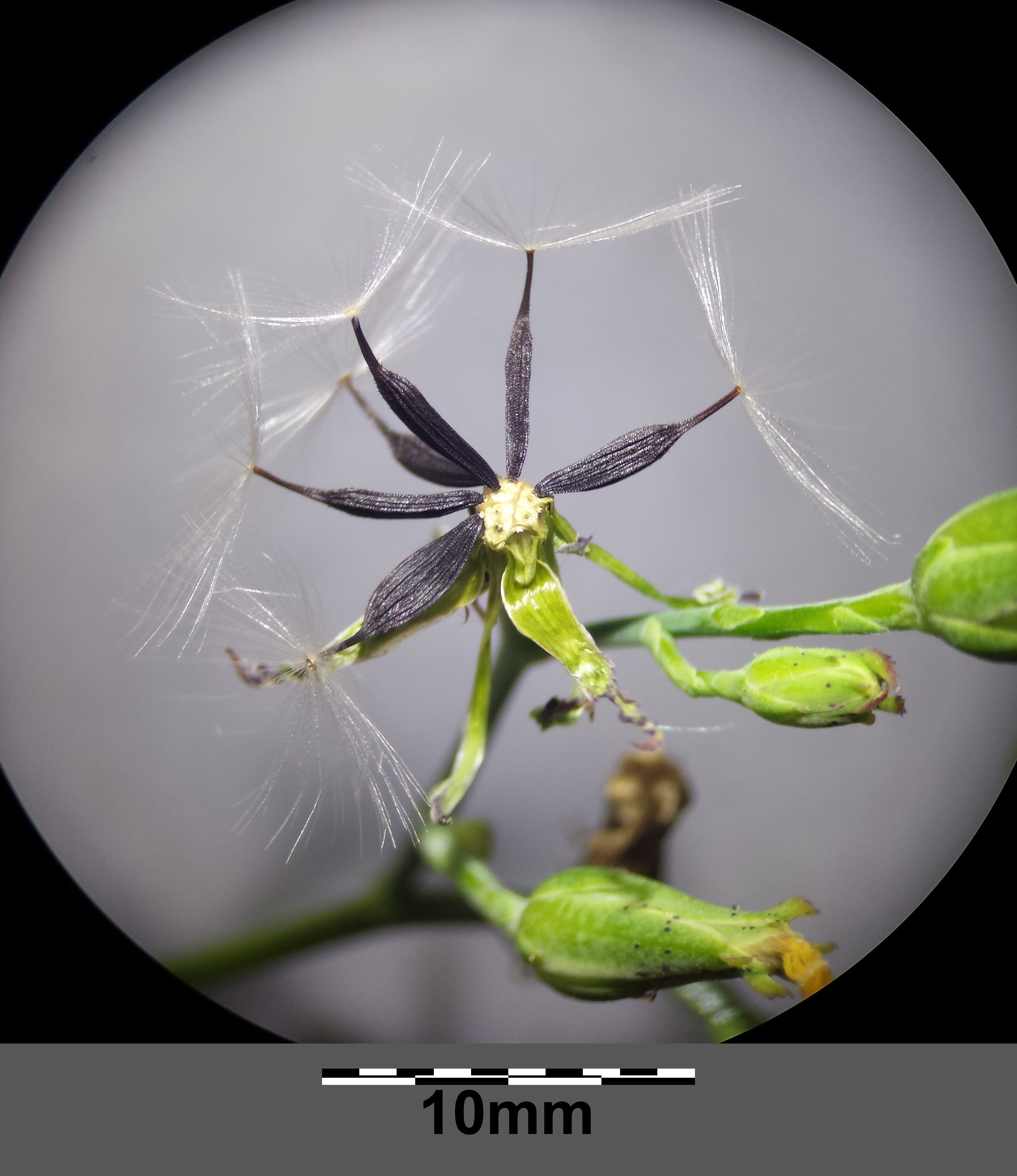 Capitulum with fruits Taxonym: Lactuca quercina ss Fischer et al. EfÖLS 2008 ISBN 978-3-85474-187-9 Location: Donauauen near Mühlleiten, district Gänserndorf, Lower Austria - ca. 150 m a.s.l. Habitat: border of a wood